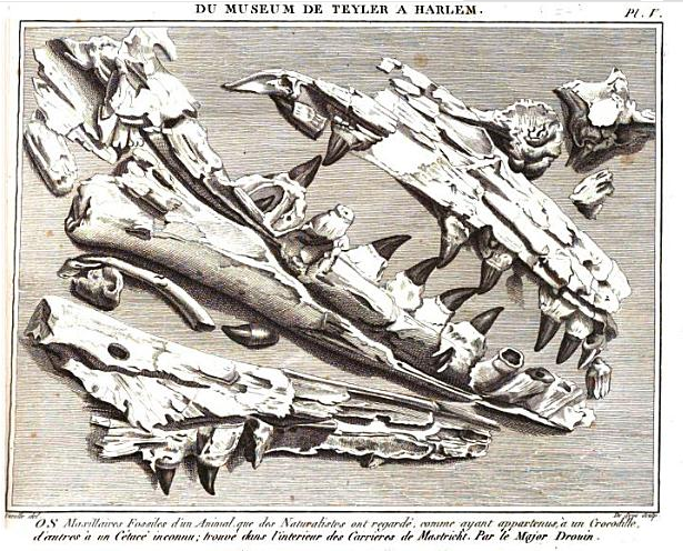 The first Mosasaurus discovery (1766) purchased by Martin van Marum in 1784 for the Teylers Museum from Jean Baptiste Drouin in Mount St. Peter, Maastricht, according to Faujas de Saint-Fond